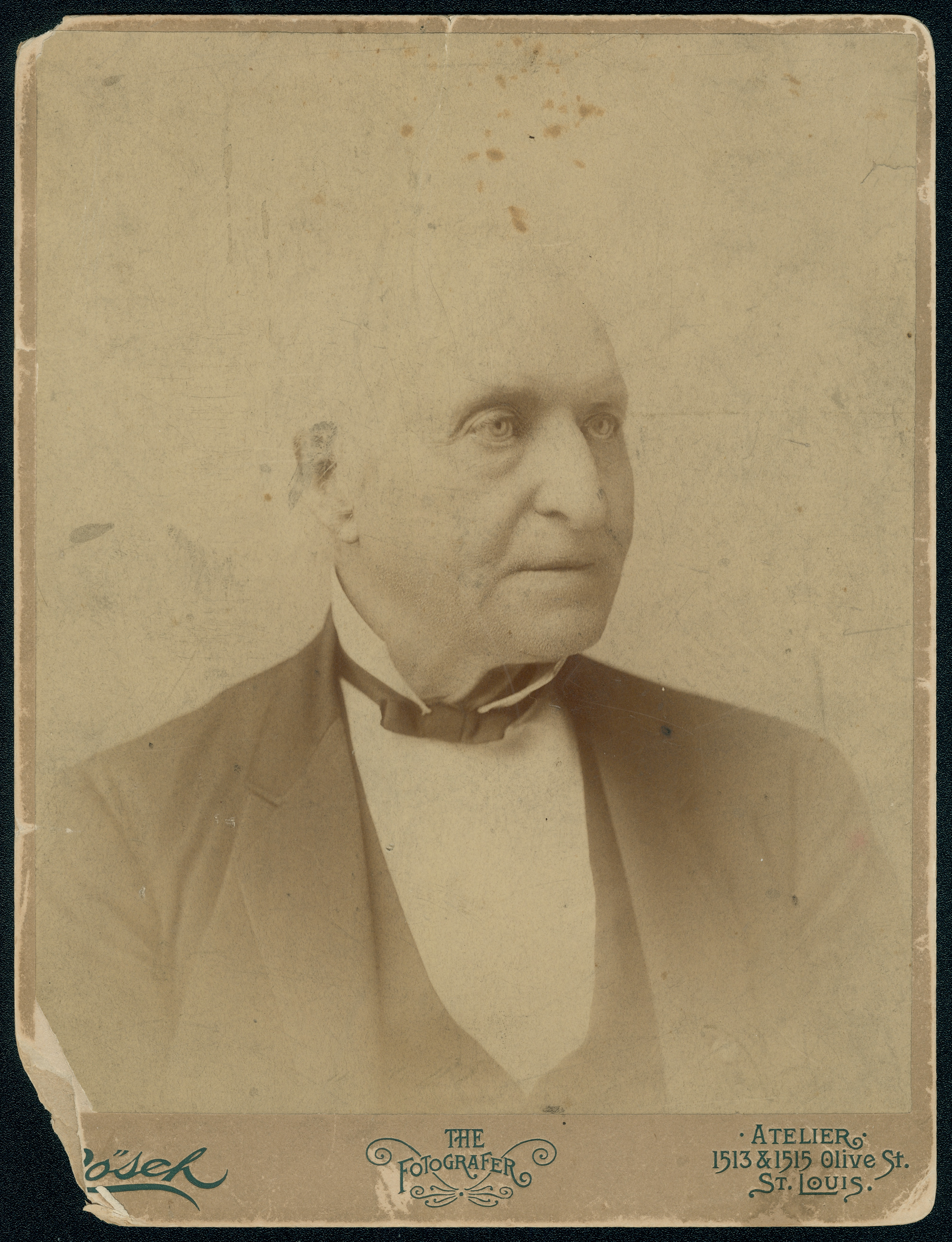 Studio portrait, view from mid chest, subject facing toward the right.Title: James Yeatman (1818 - 1901).